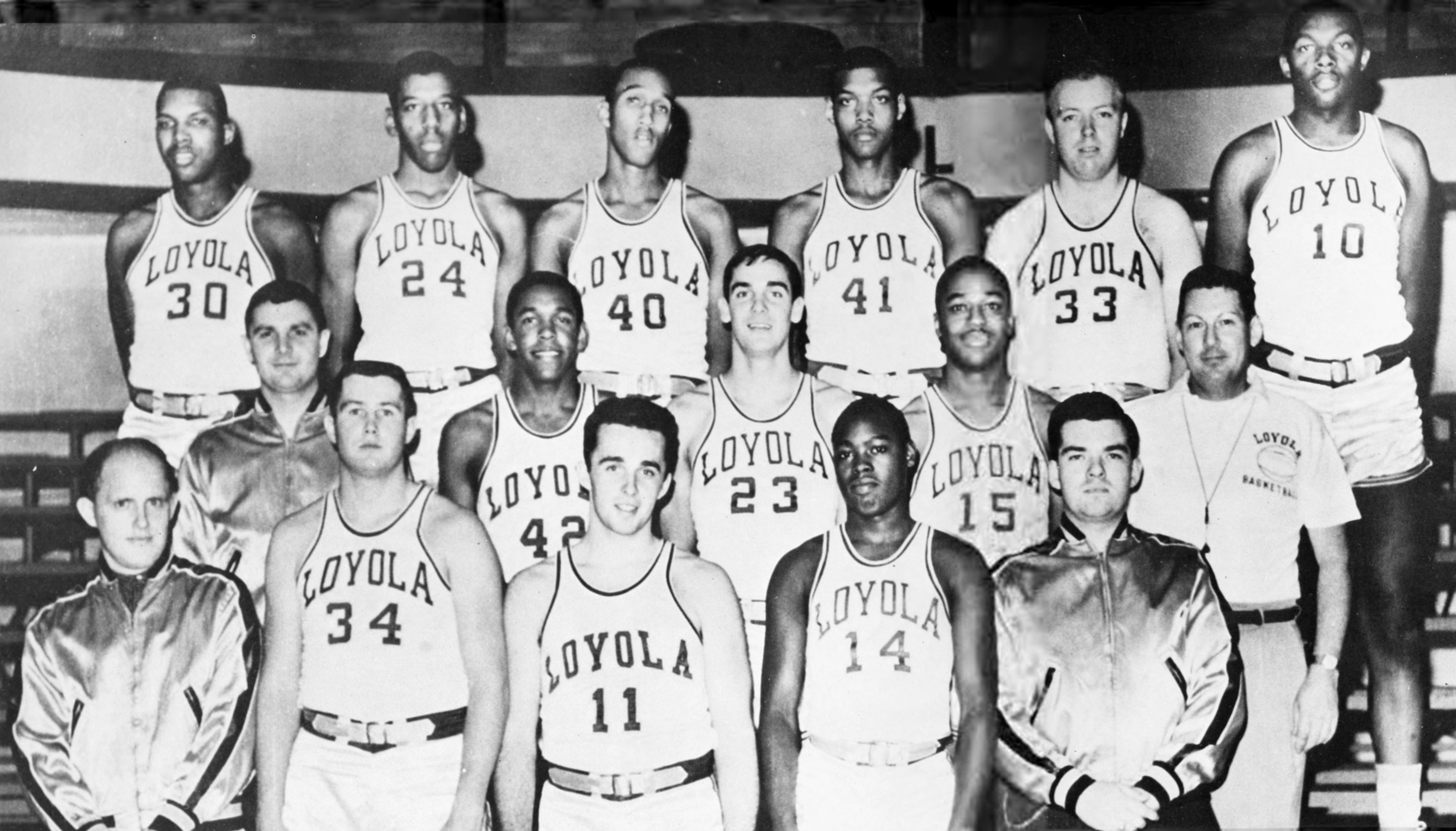 A group photo of the 1962–63 Loyola Ramblers men's basketball team, winners of the 1963 NCAA National Championship